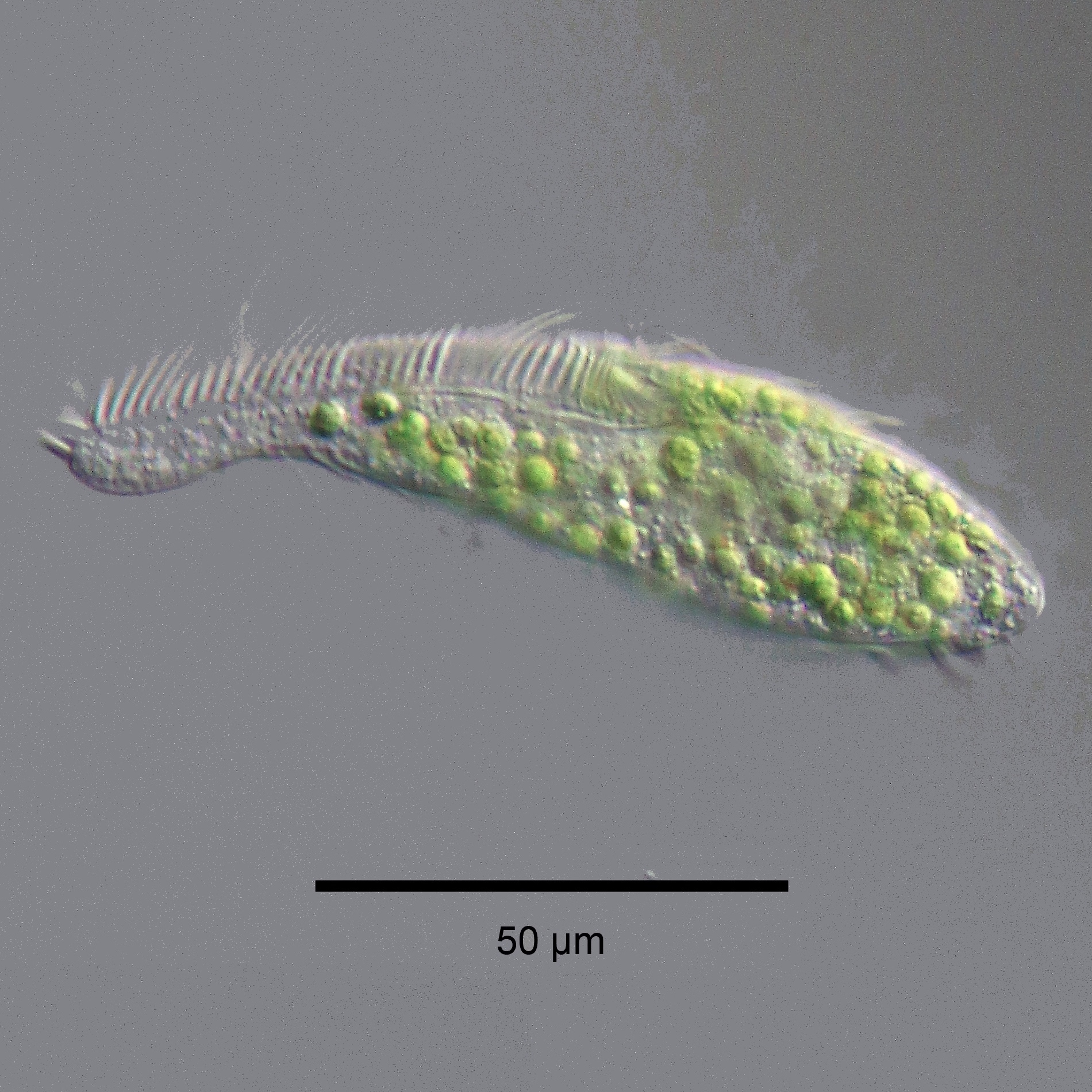 Stichotricha secunda looks very similiar to Stichotricha aculeata but S. secunda it is distinctly larger and there are zoochlorellae in the cell body which are a particular feature of S. secunda.